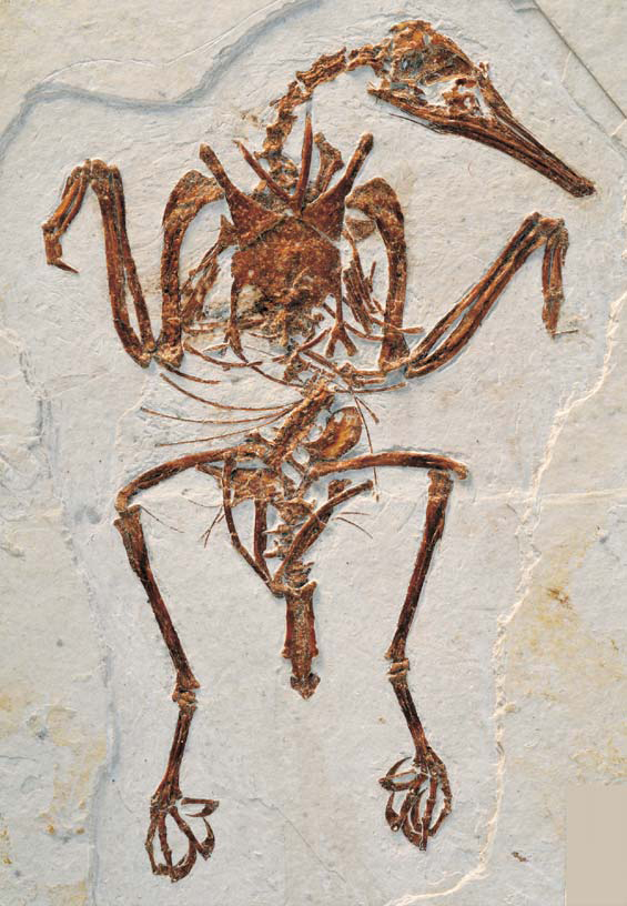 Photograph of enantiornithine bird Rapaxavis pani Morschhauser, Varricchio, Gao, Liu, Wang, Cheng, and Meng, 2009 from the Early Cretaceous Jiufotang Formation in northeastern China. DNHM D2522 (holotype).